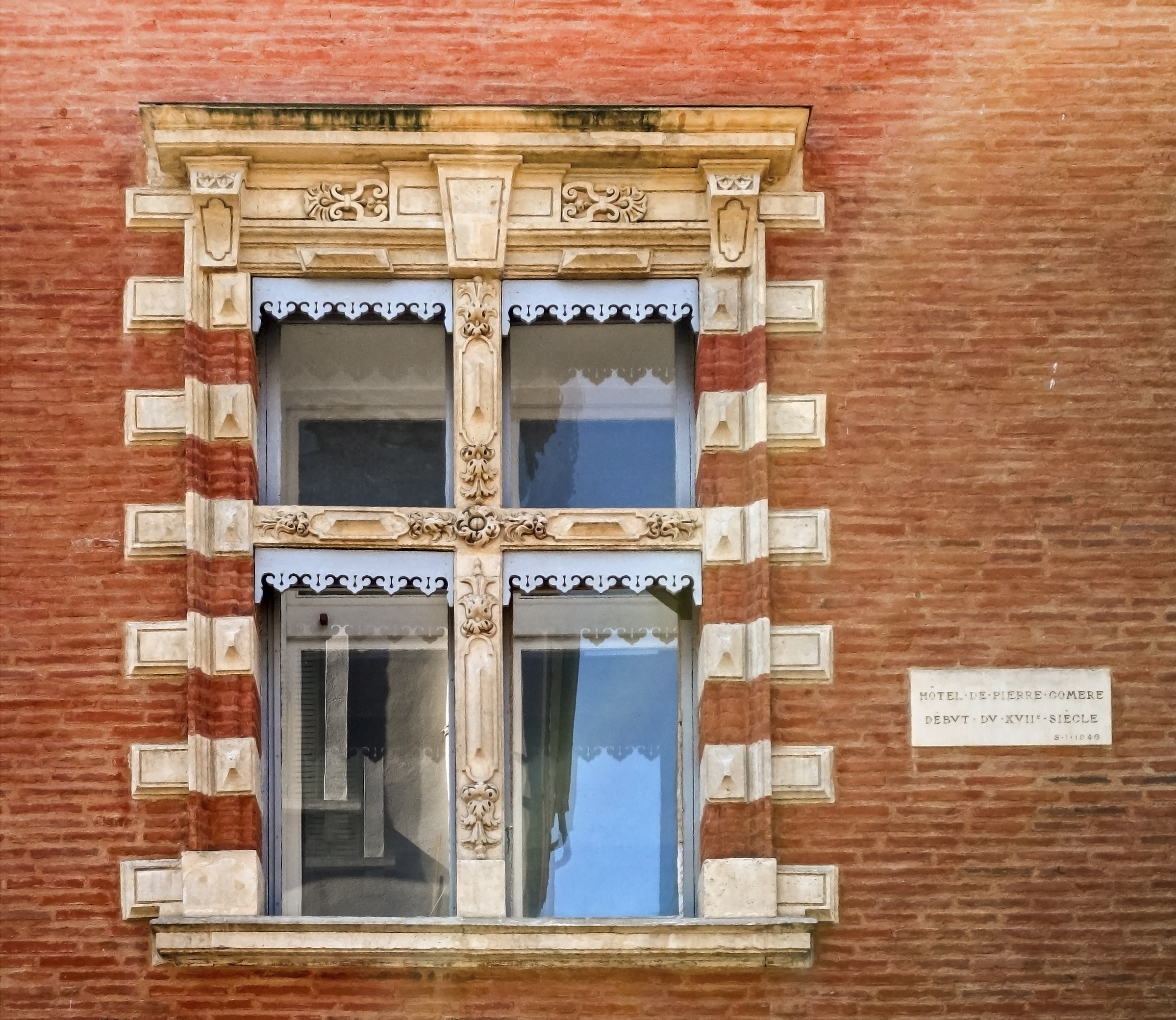 Mullioned window of the Hotel Pierre Comère, rue Saint Rome from Toulouse.